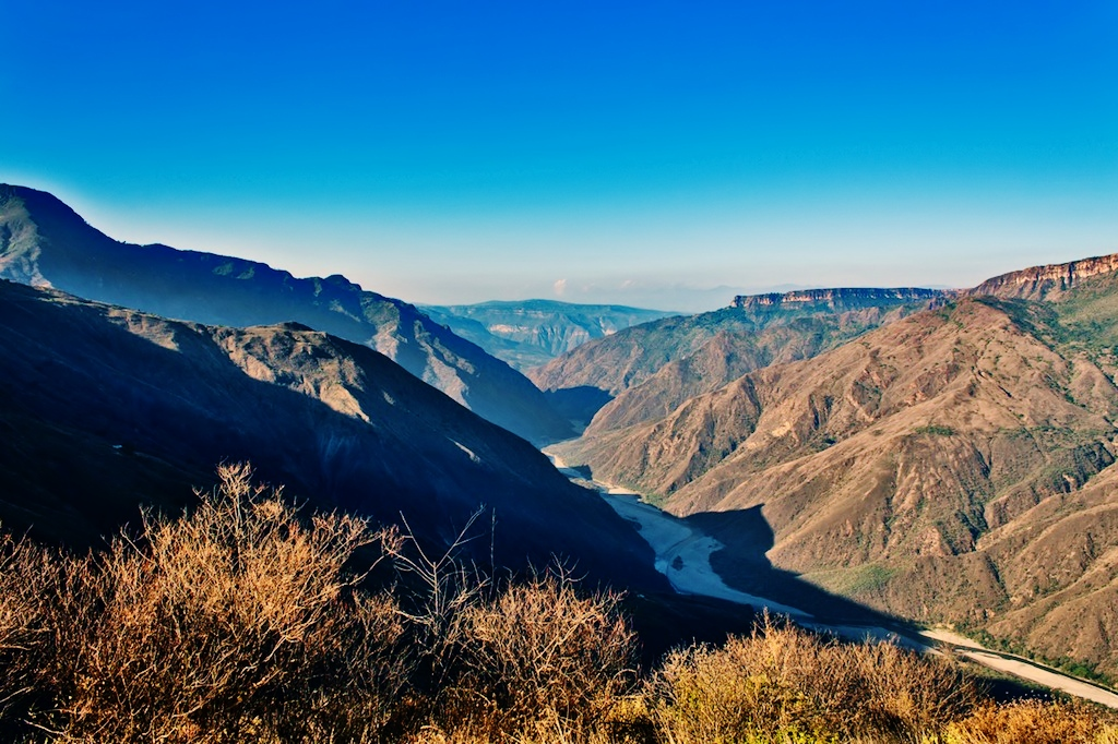 Chicamocha Cannon. Near Chicamocha National Park - Colombia. South America